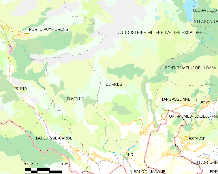 Map of French municipality